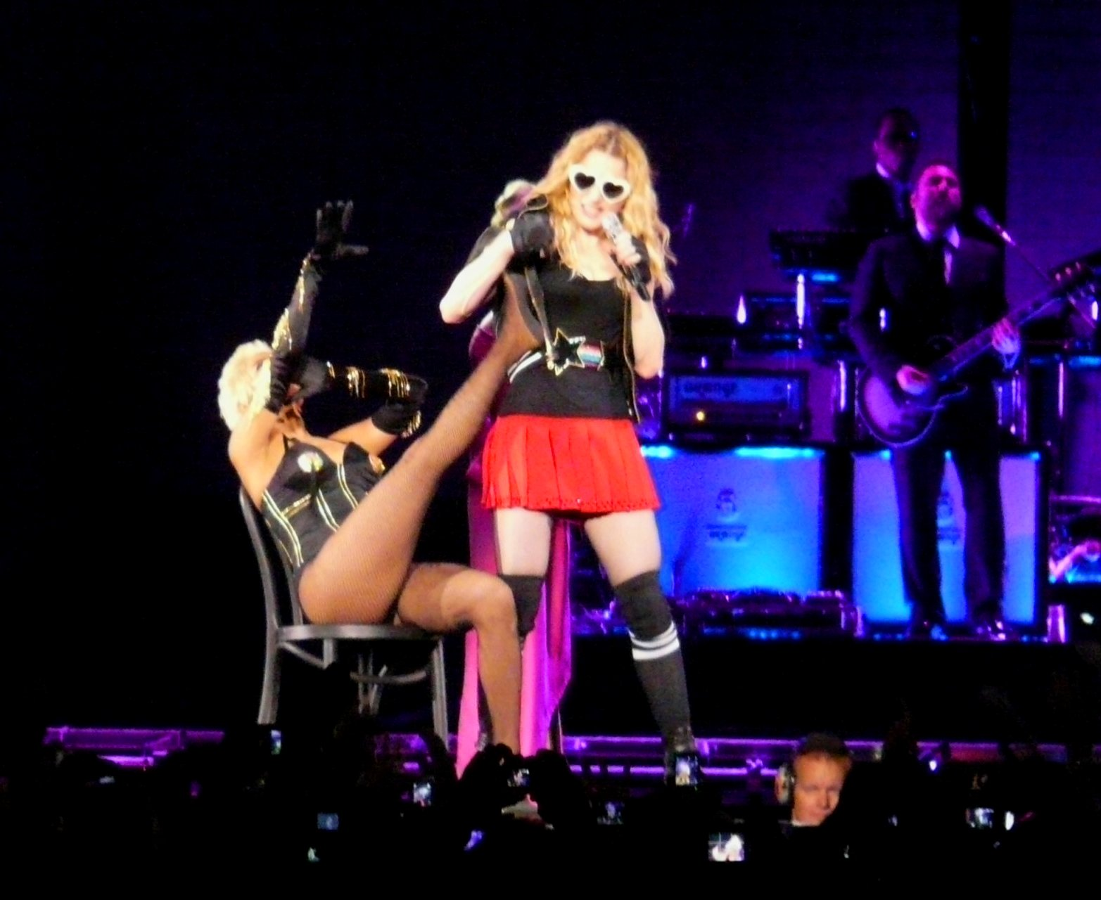 Madonna performing "She's Not Me" on the Sticky & Sweet Tour